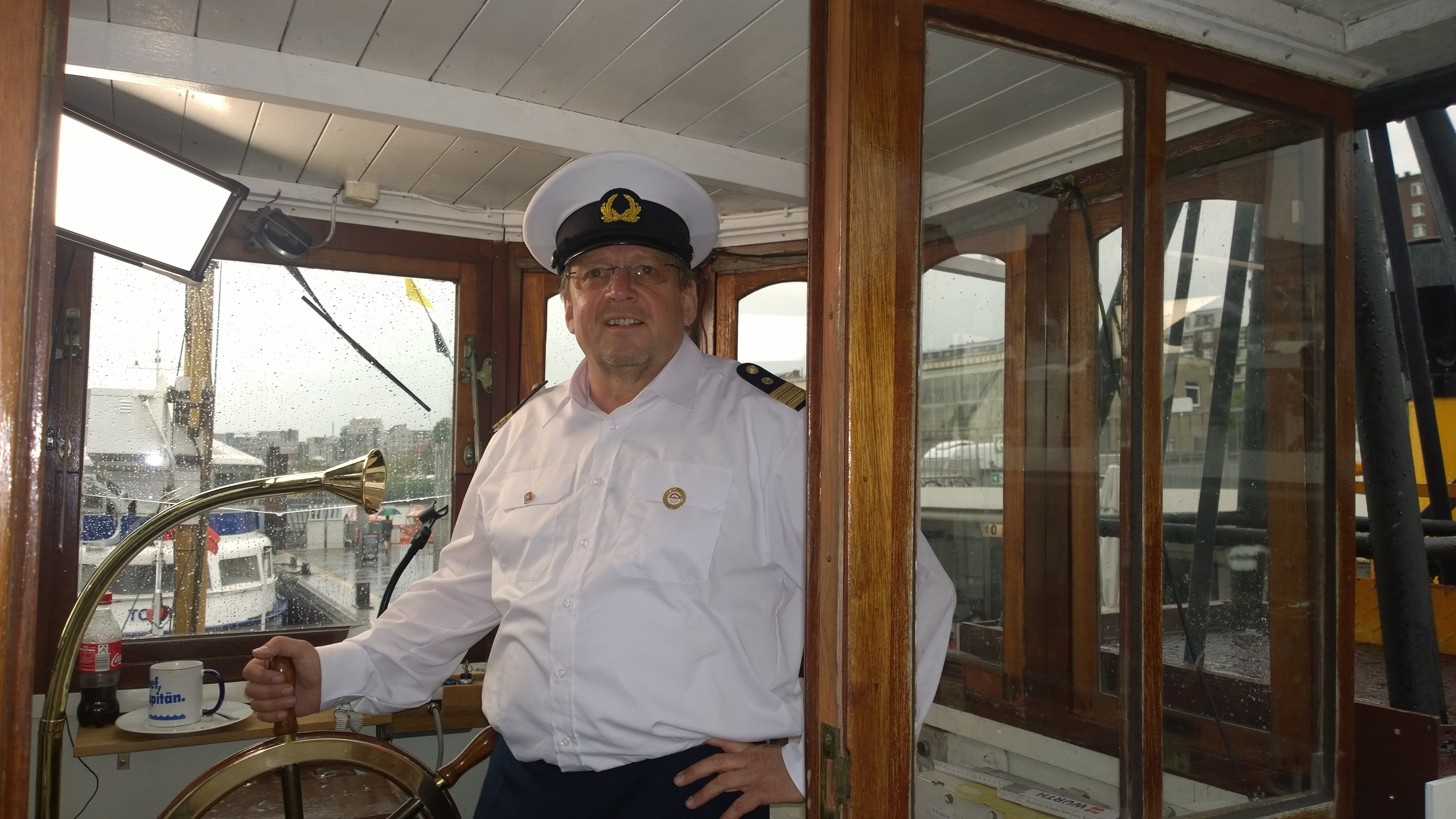 Paddle wheel steamer Kaiser Wilhelm - the captain on the bridge - Hamburg, in May 2017